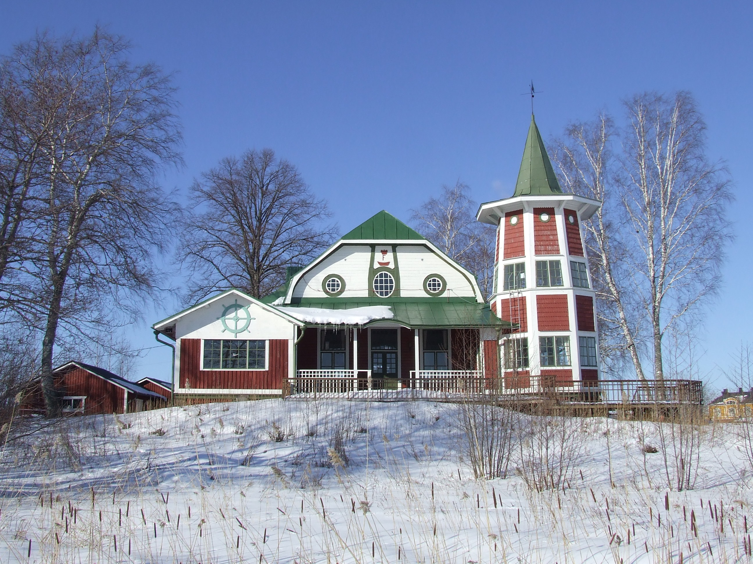 Hamina Sailor Pavilion in Finland.